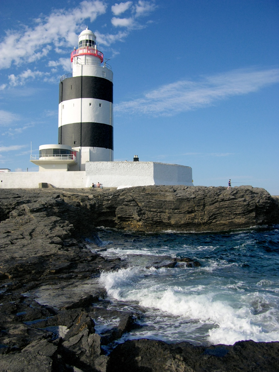 Hook Head Lighthouse, Co. Wexford, Ireland